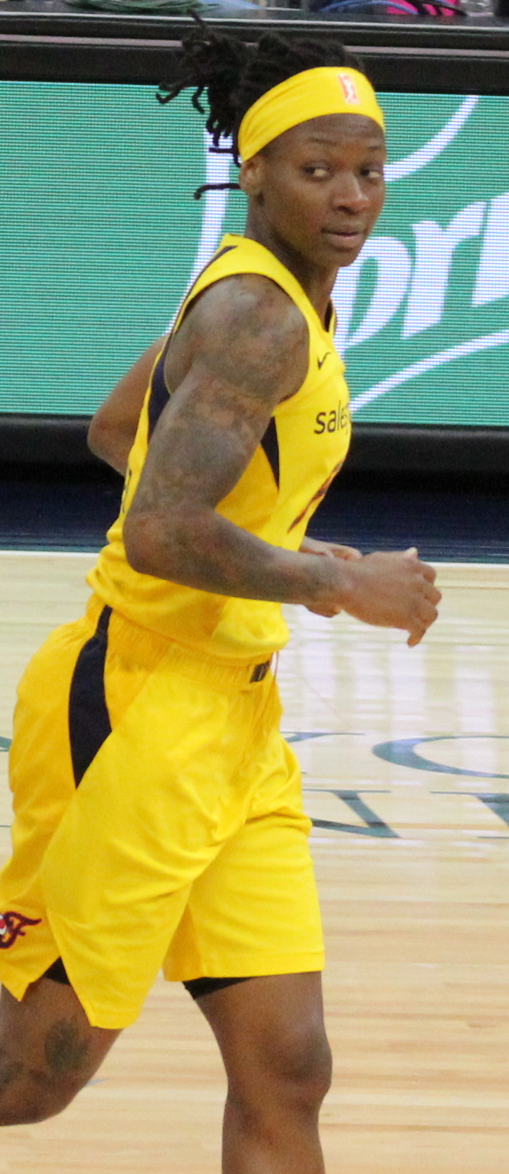 Erica Wheeler of the Indiana Fever